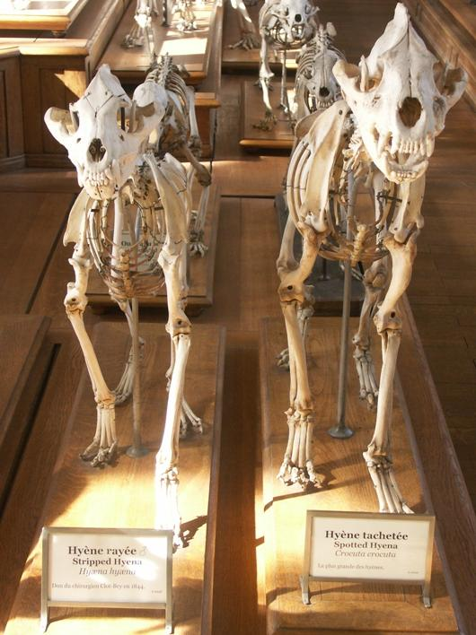 Skeletons of a striped hyena and a spotted hyena from the Muséum national d'histoire naturelle